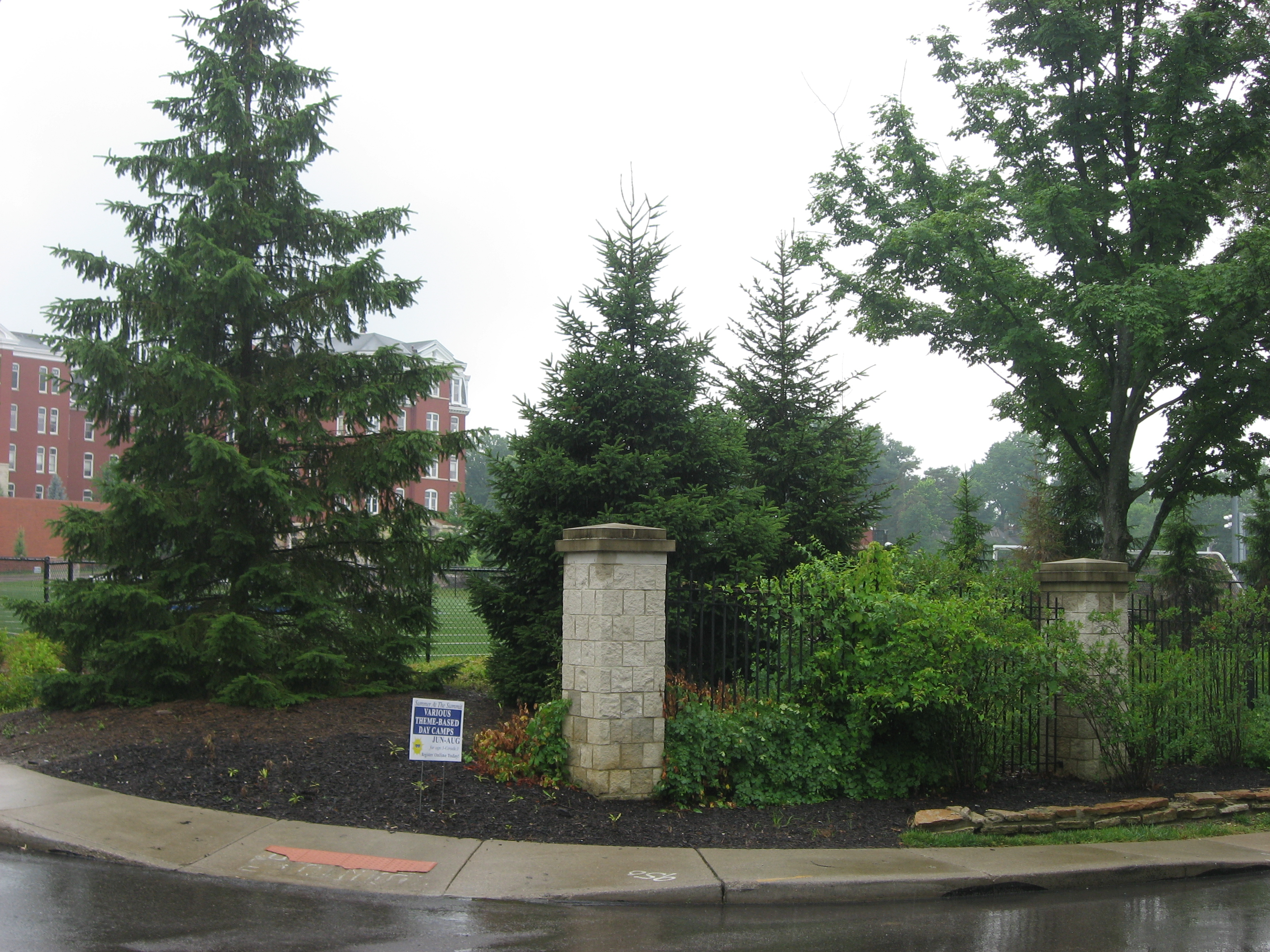 Site of the Peters-Kupferschmid House, now on the grounds of the Summit Country Day School at 2167 Grandin Road in Cincinnati, Ohio, United States. Built in 1885, it is listed on the National Register of Historic Places, despite its destruction.